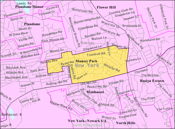 U.S. Census 2000 reference map for Munsey Park, New York